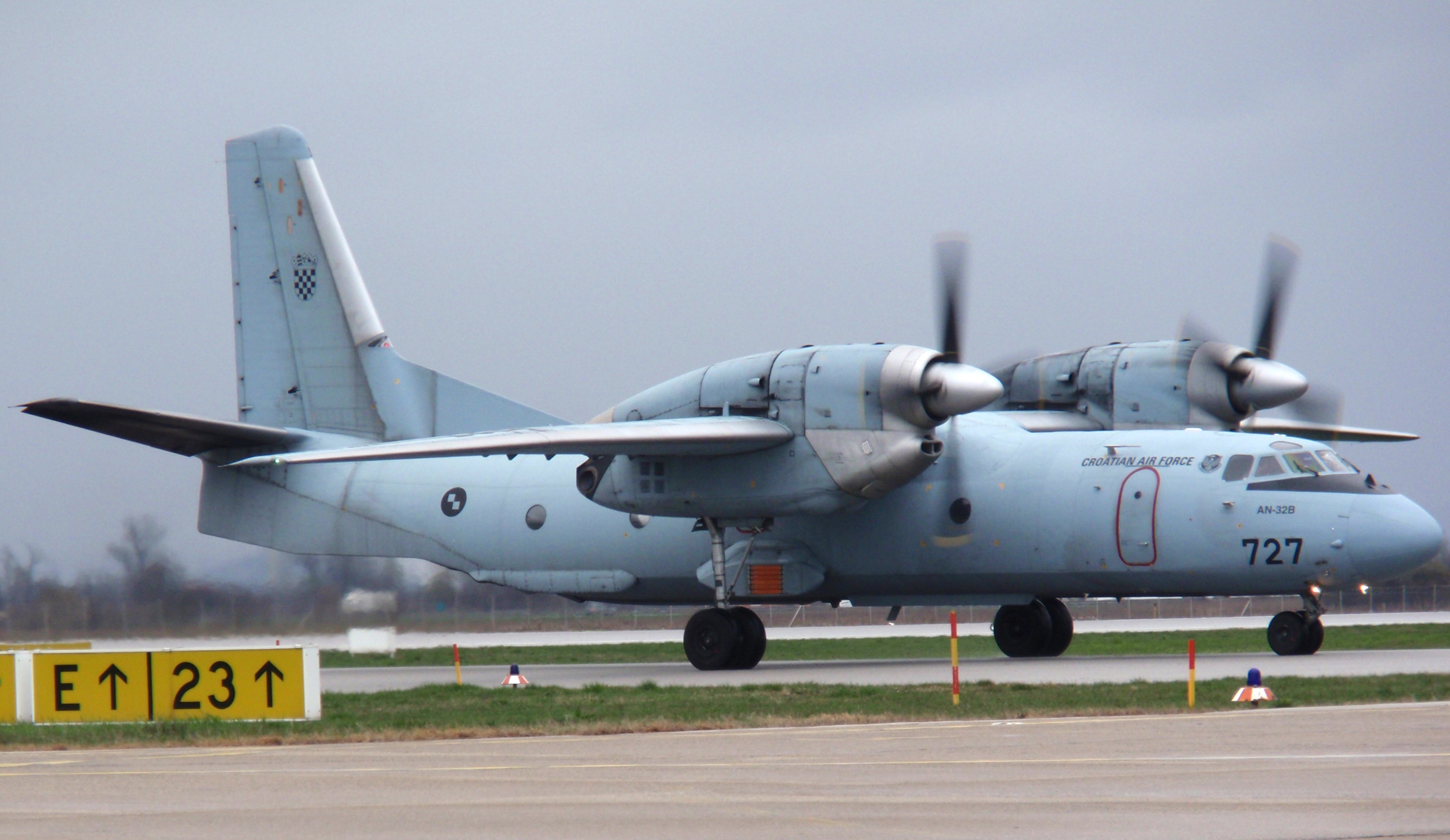 Antonov An-32B of Croatian Air Force on Airport Zagreb